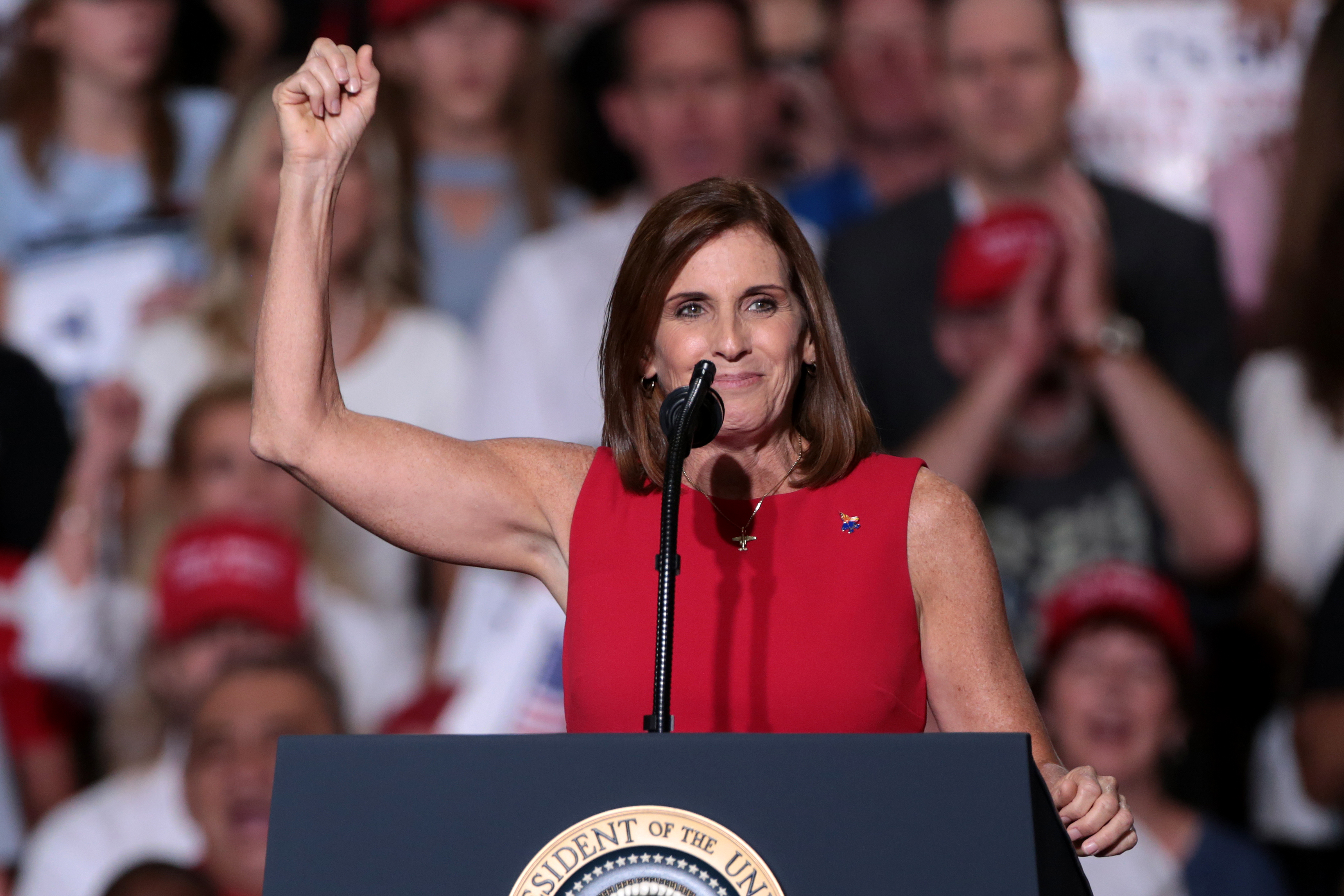 U.S. Congresswoman Martha McSally speaking with supporters of President of the United States Donald Trump at a Make America Great Again campaign rally at International Air Response Hangar at Phoenix-Mesa Gateway Airport in Mesa, Arizona.